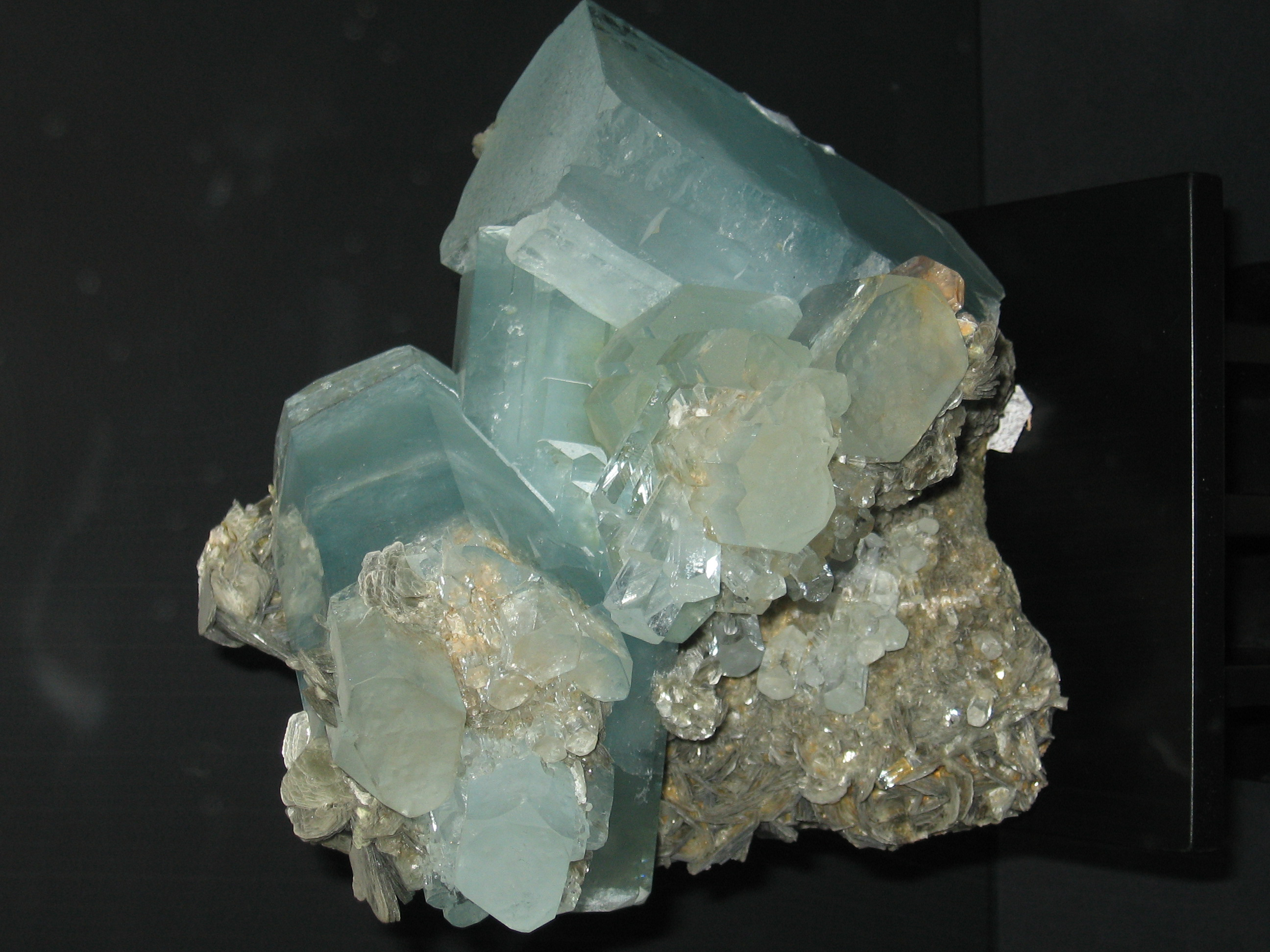 Berillo from Gilgit, Pakistan.